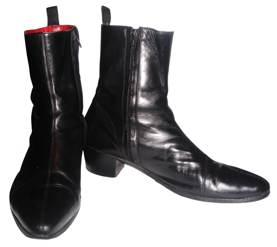 Pair of Beatwear Zip Boots in Black Calf Leather. Exact Beatle boot replicas.